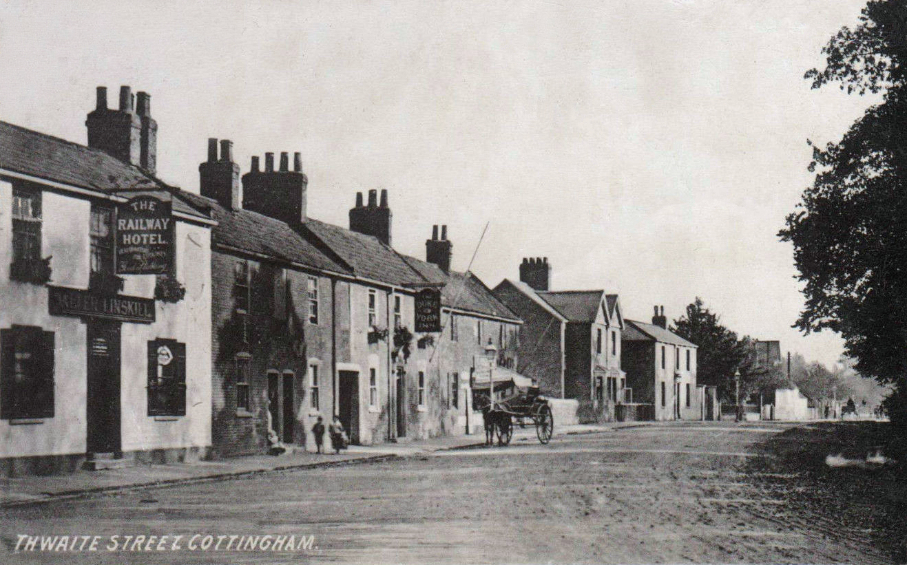 Thwaite Street (1905 or before), showing The Railway Hotel and The Duke of York Inn, in Cottingham, East Yorkshire, England. These pubs and terrace have since been demolished, and been replaced by a block of private gated apartments and a 1950's-style pub, The Railway. However, the late- and early-Victorian buildings beyond, remain.Postcard cropped to remove damaged edges. No indication of publisher. No other version found, including the web.